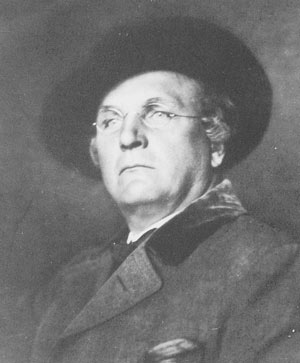 Egil Næss Eide (24 August 1868 – 13 December 1946); Norwegian silent film actor and director. As Dr. Stockmann in An Enemy of the People, 1915.